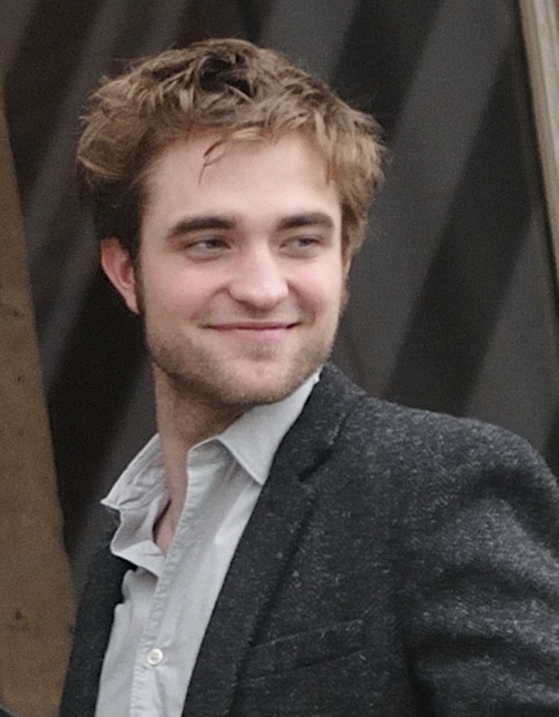 Robert Pattinson attending the Twilight Saga Film New Moon (Twilight Chapitre 2 Tentation) Photocall at the Crillon Hotel in Paris, France on November 10, 2009.